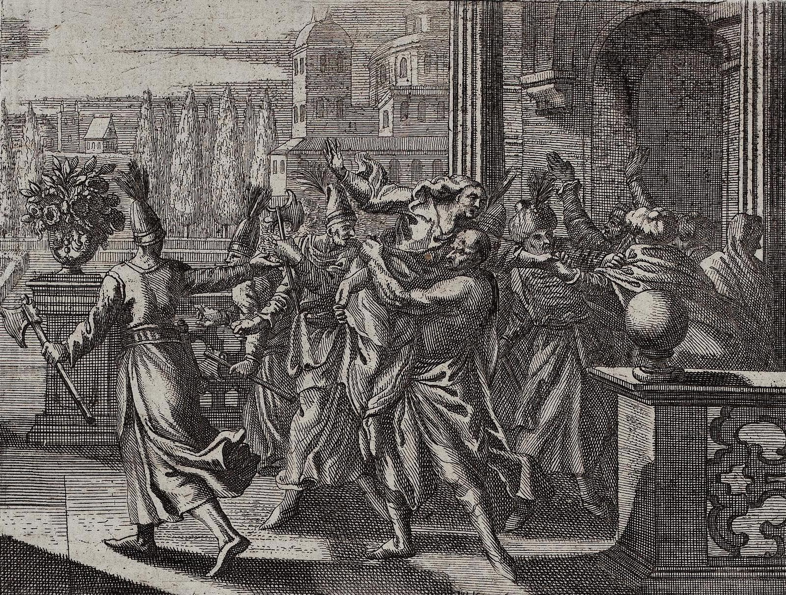 Rycaut1694 bd1, p. 481(659). Kidnapping of sheyh-ul-islam's daughter.